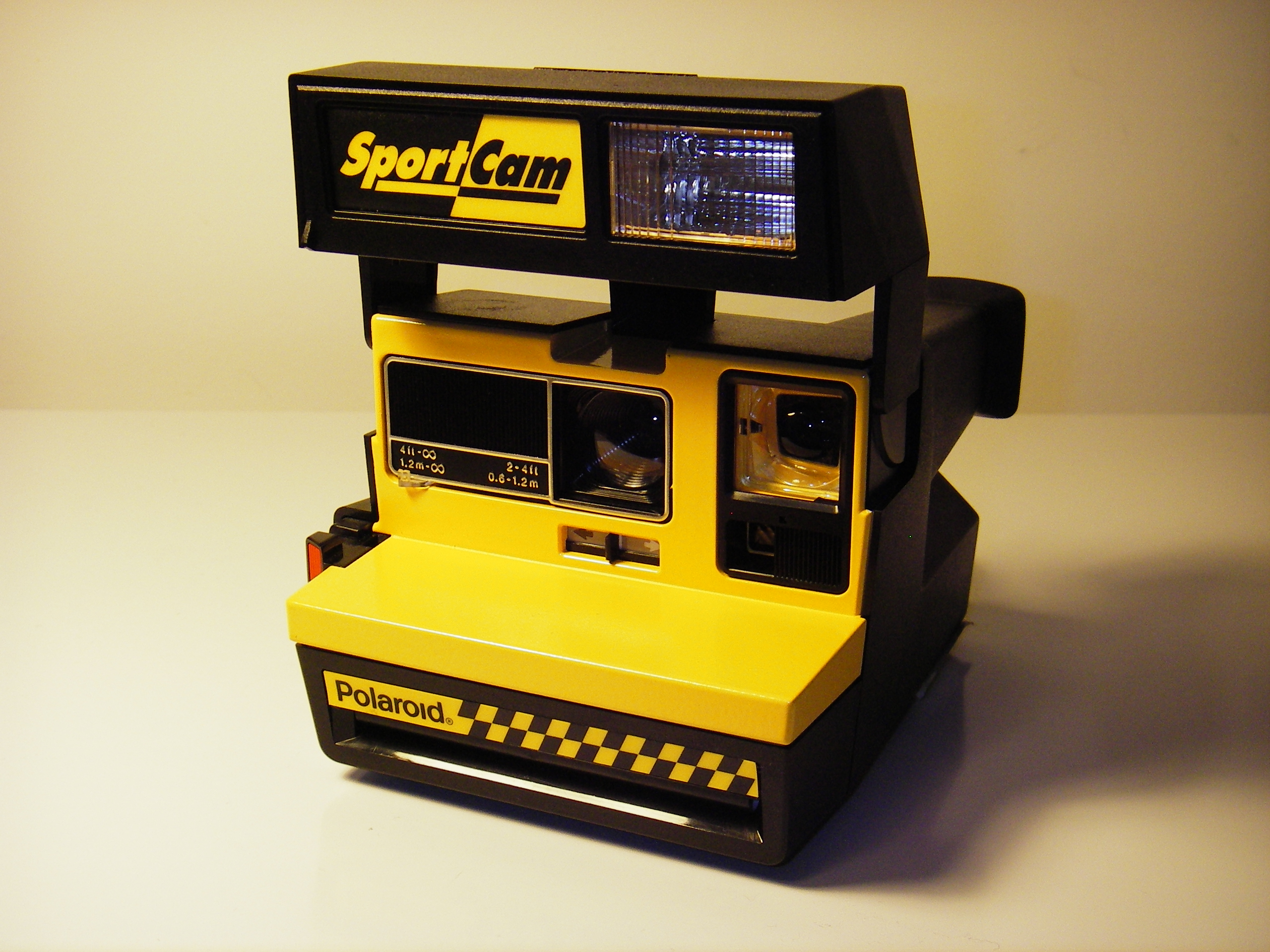 Polaroid SportCam. Polaroid 600 Series.